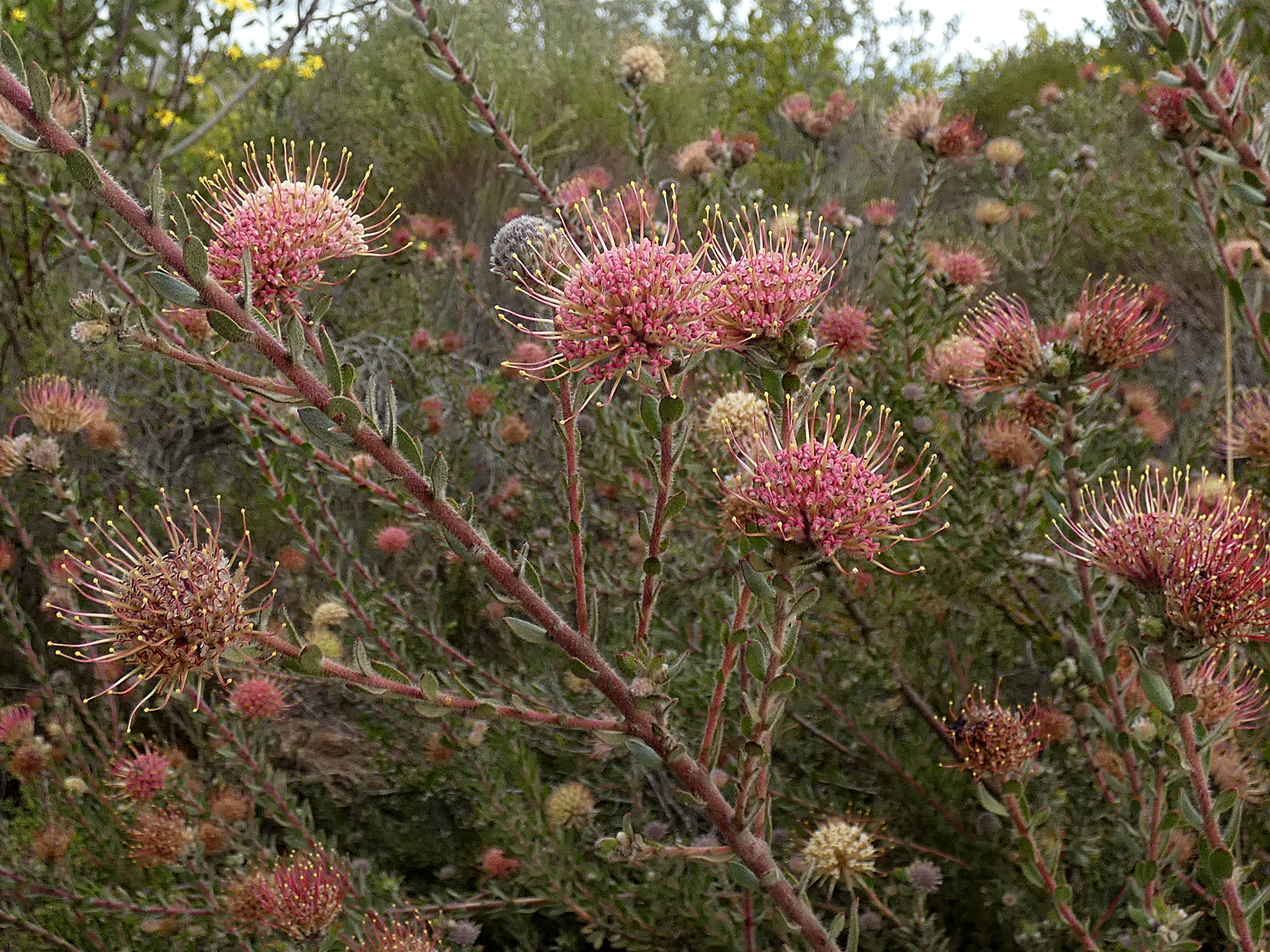 Arid Pincushion Leucospermum calligerum, photographed on the Potberg, SA